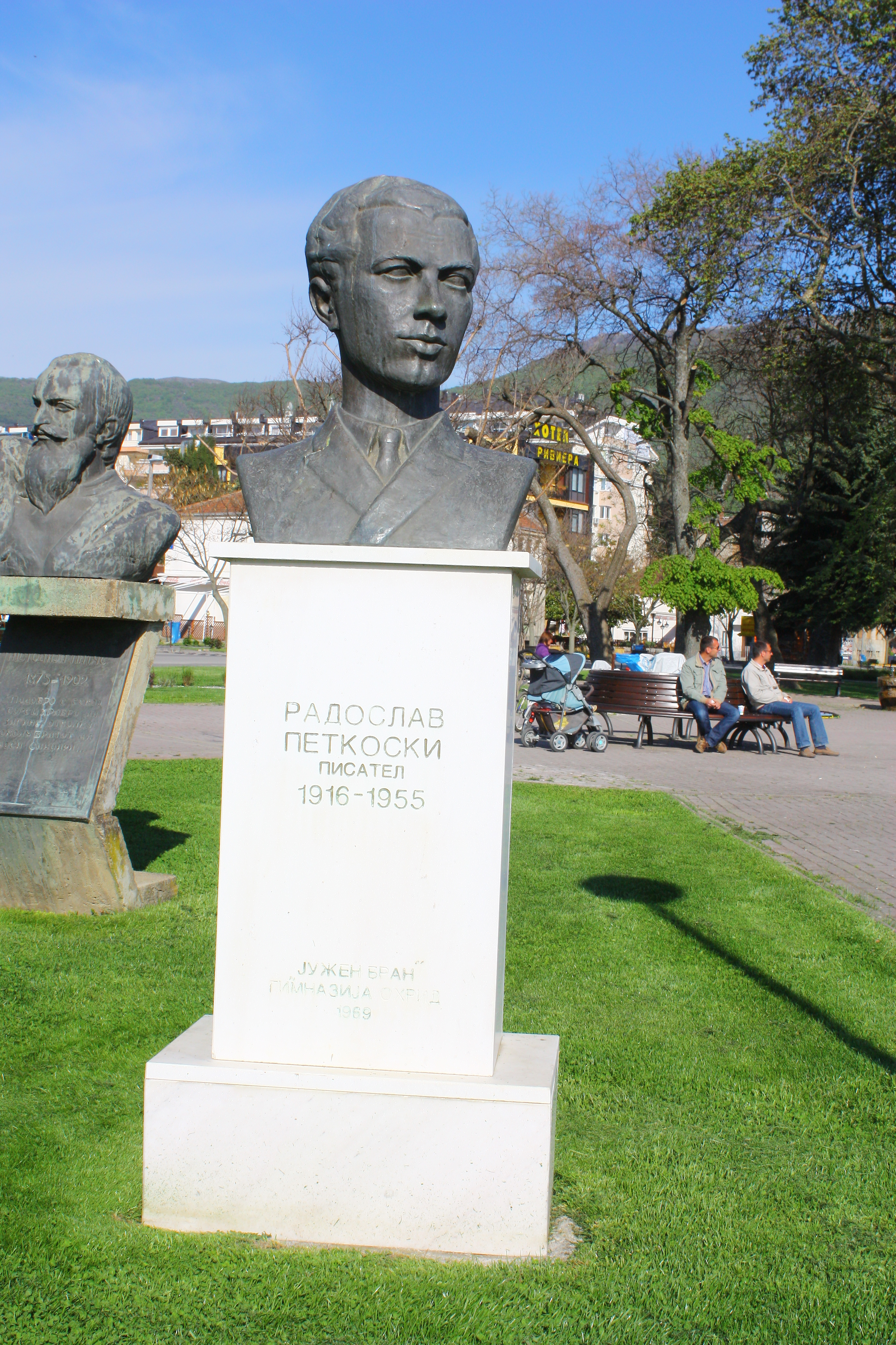 Monument of Grigor Prličev in Ohrid, Macedonia